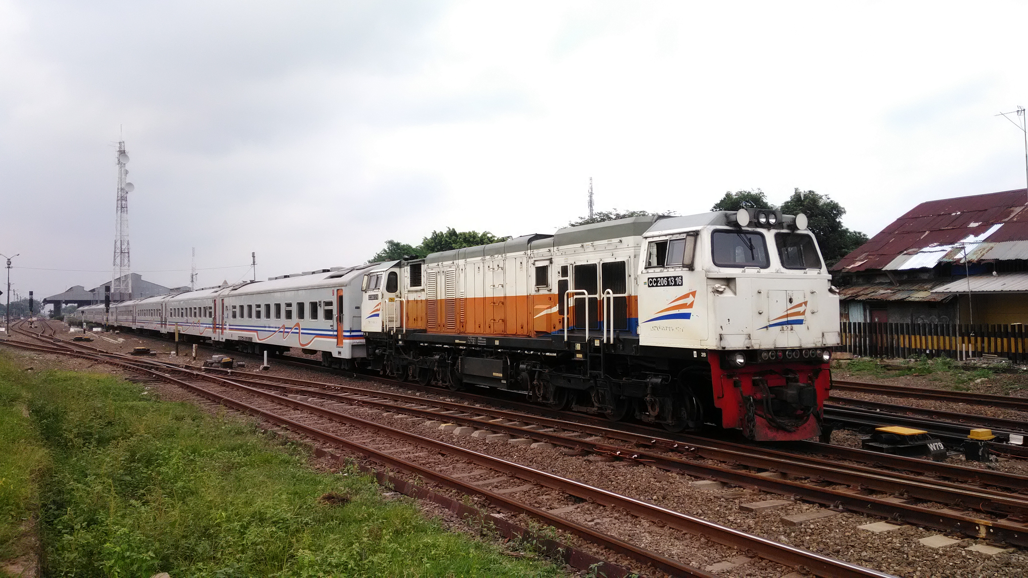 Jayabaya Train with number train 144/145 ft CC 206 13 16 SDT depart from Cikampek Station